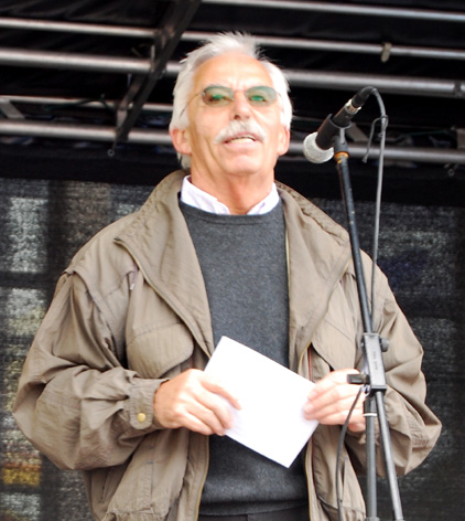 Franz Haug, mayor of Solingen from 1999 to 2009